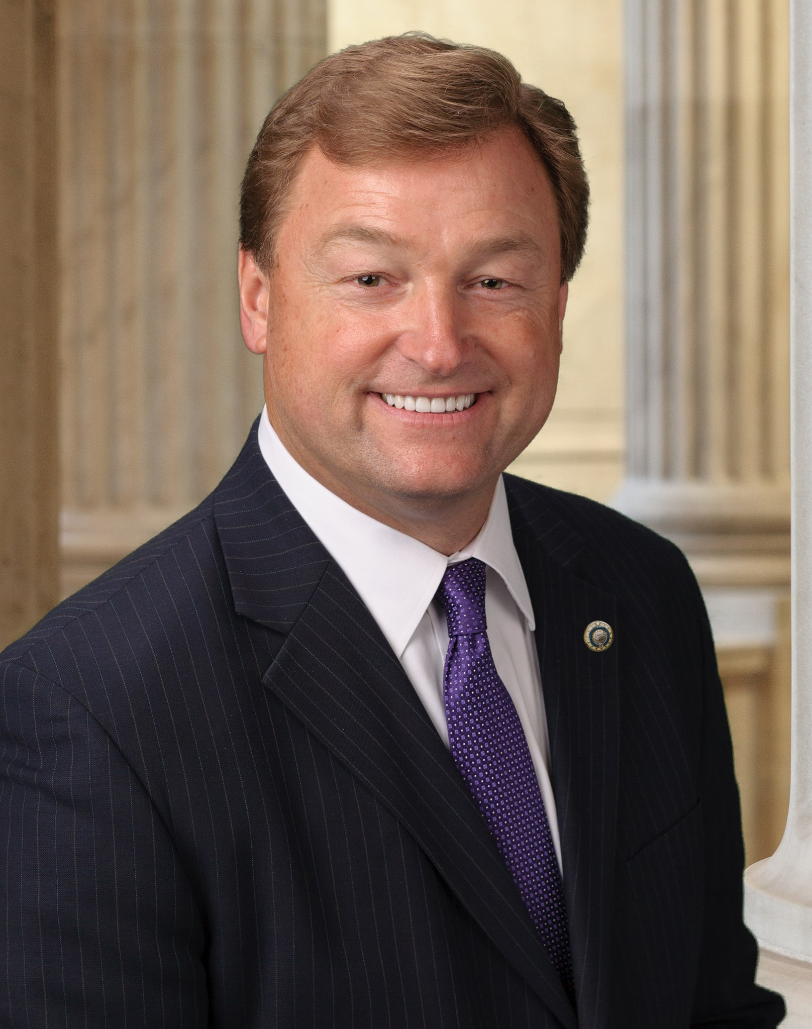 Dean Heller official photo, 114th Congress.